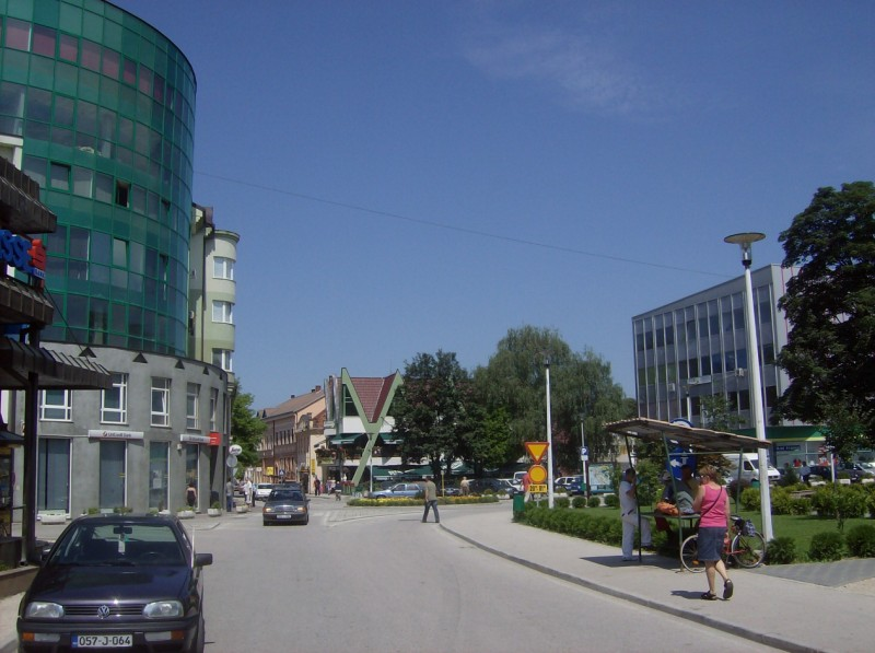 Center of town of Sanski Most, Bosnia and Hercegovina, Europe